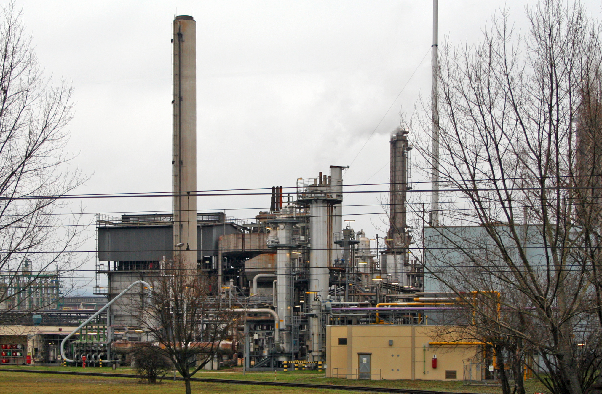 Ammoniac Plant, in "Chemiepark" of Linz, in Germany